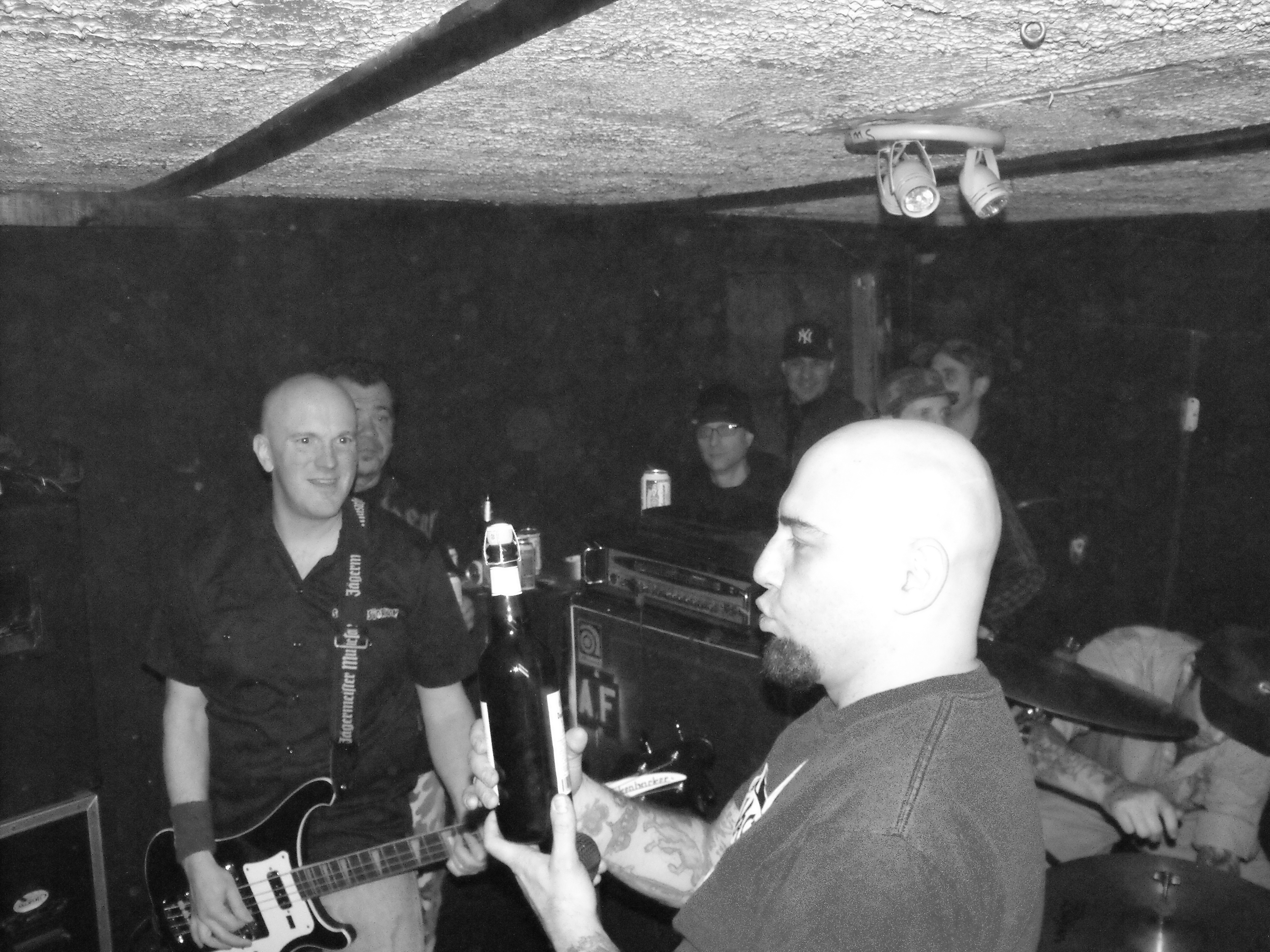 Murphy's Law At Popeyes 2009-03-13